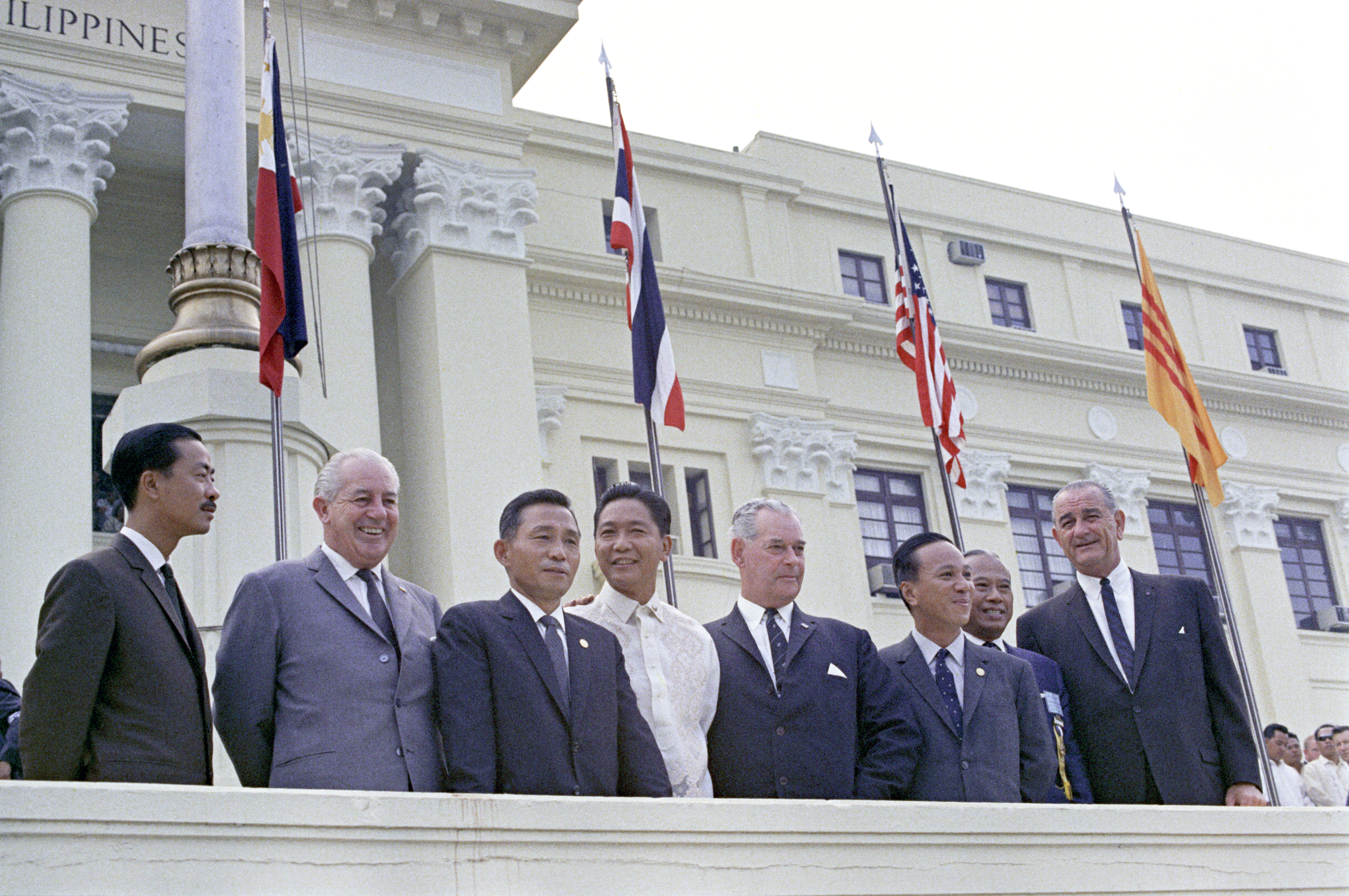 (L-R:) Prime Minister Nguyen Cao Ky (South Vietnam), Prime Minister Harold Holt (Australia), President Park Chung Hee (South Korea), President Ferdinand Marcos (Philippines), Prime Minister Keith Holyoake (New Zealand), Lt. Gen. Nguyen Van Thieu (South Vietnam), Prime Minister Thanom Kittikachorn (Thailand), President Lyndon B. Johnson (United States)